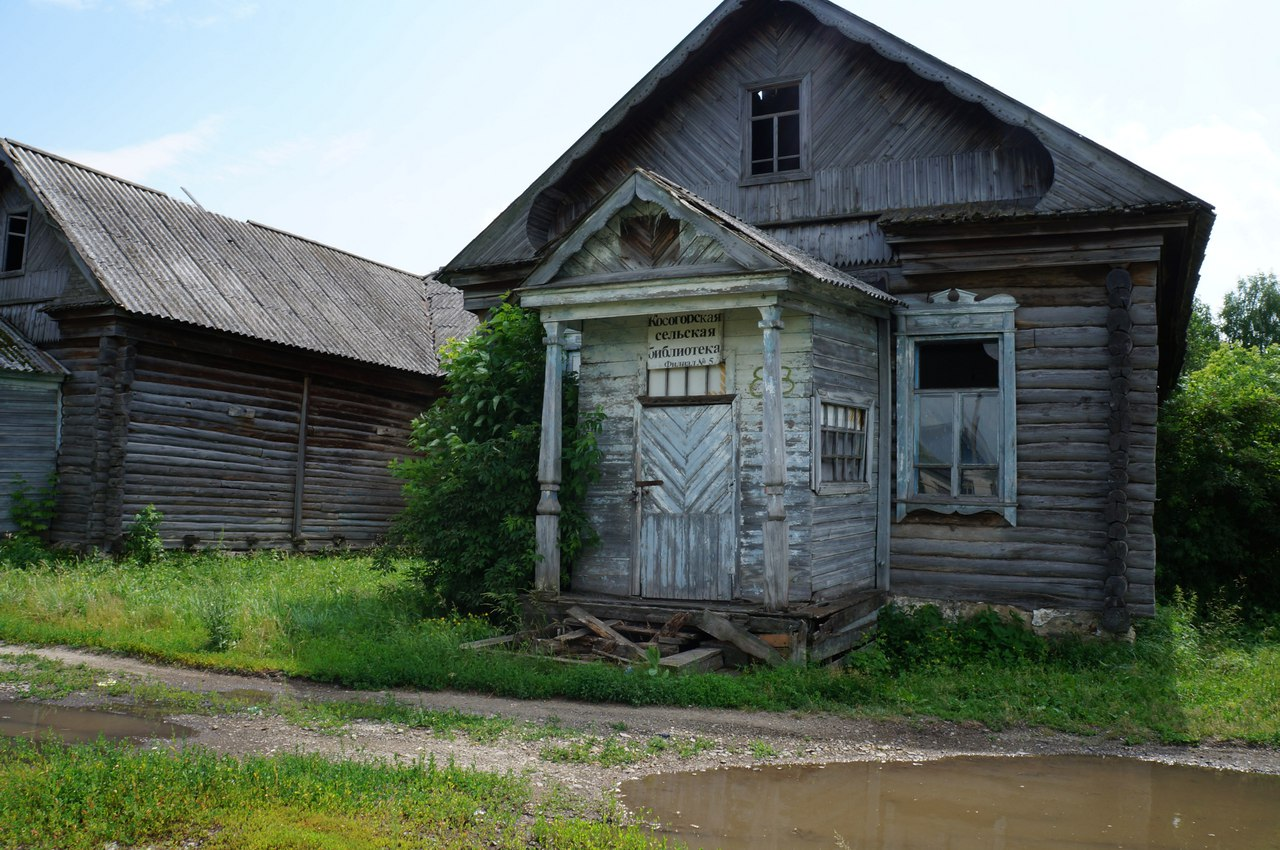 Library in erzya village Kosogory village (Gosagyr) in the district Bolshebereznikovsky of Mordovia, Russia